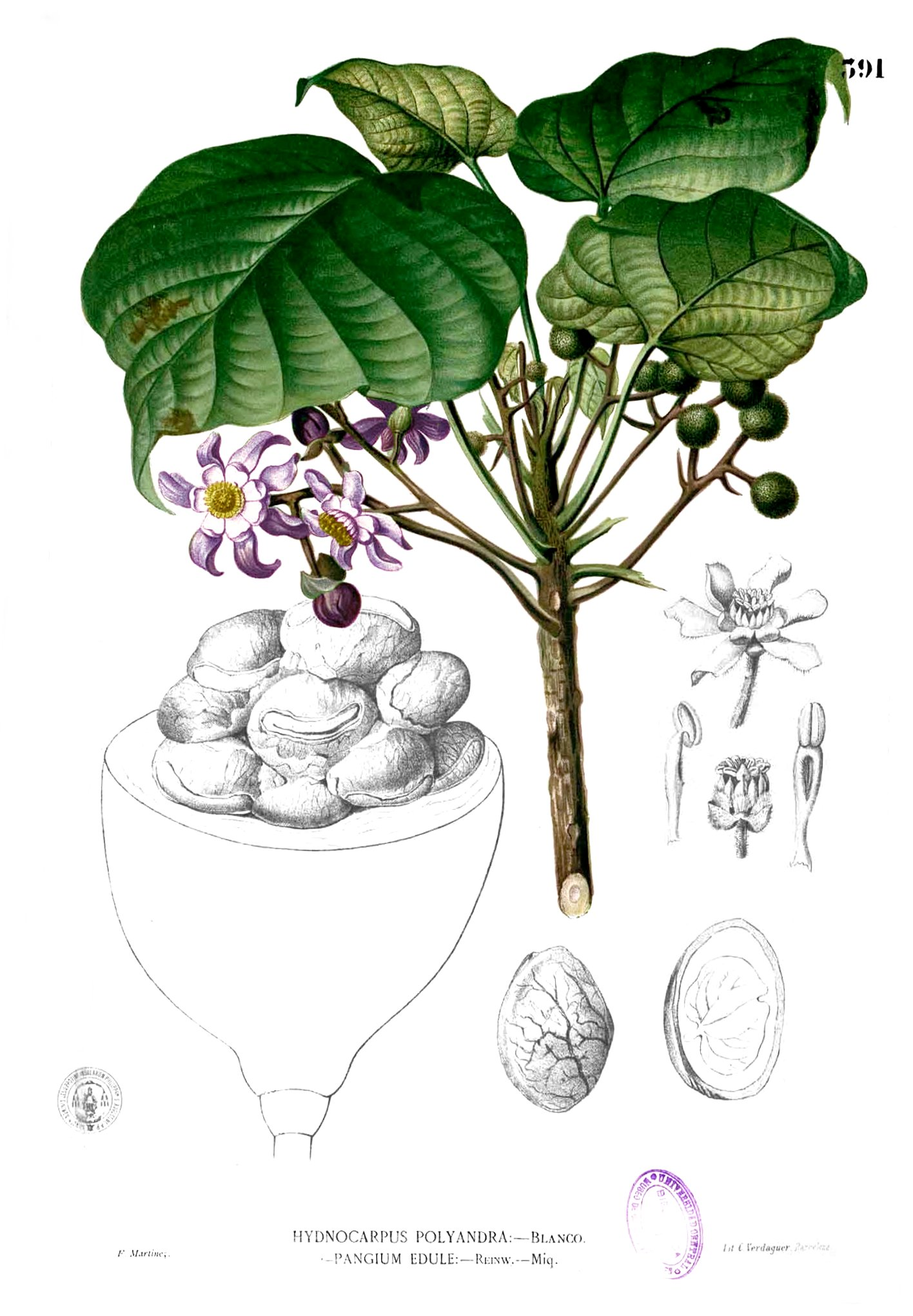 Pangium edule, Plate from book